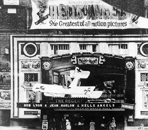 Facade of the Regent Cinema formerly located on the corner at 133 Queen's Road/133 North Street, Brighton. Showing "Hells Angels - The Greatest of all motion pictures - starring Ben Lyon and Jean Harlow". The facade includes a Biplane.